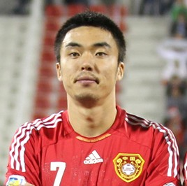 Members of the Chinese national football team pose for a group picture.